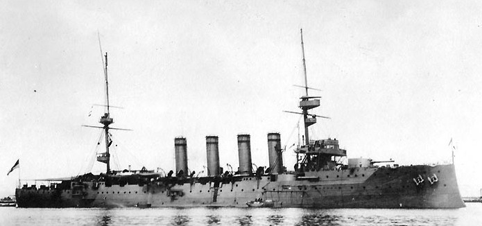 Photographer of British armoured cruiser HMS Devonshire.